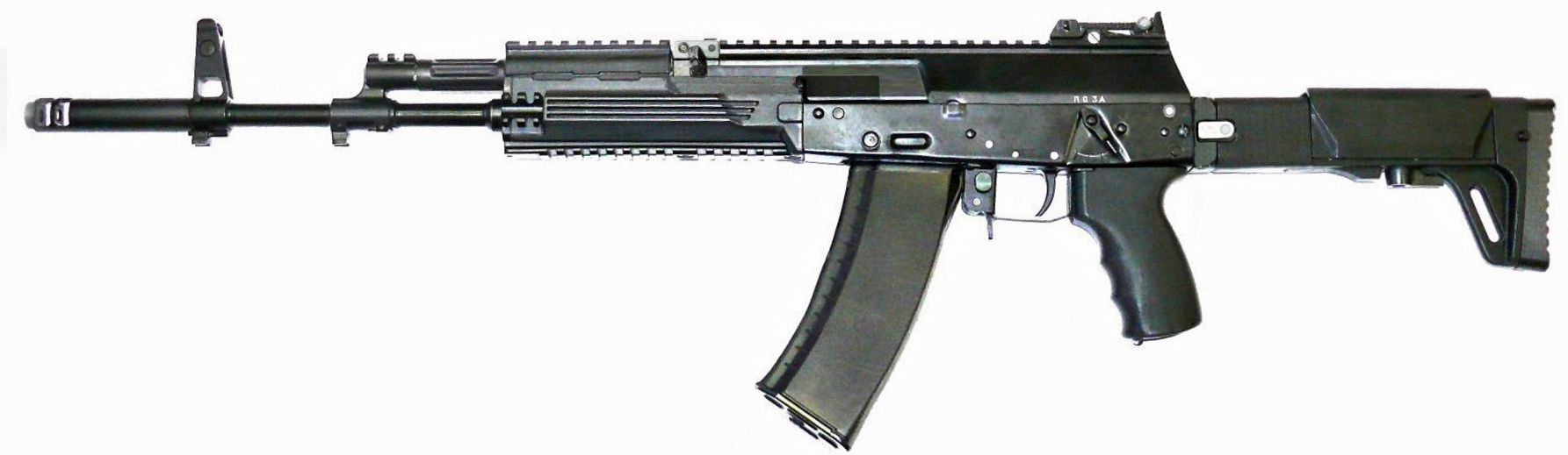 A prospective view on the left side of an AK-12 assault rifle